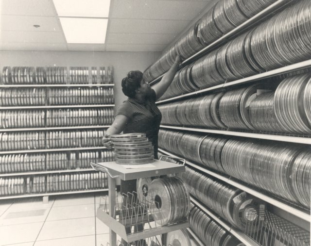 Dorothy Whitaker works in the National Oceanographic Data Center (NODC) magnetic tape library